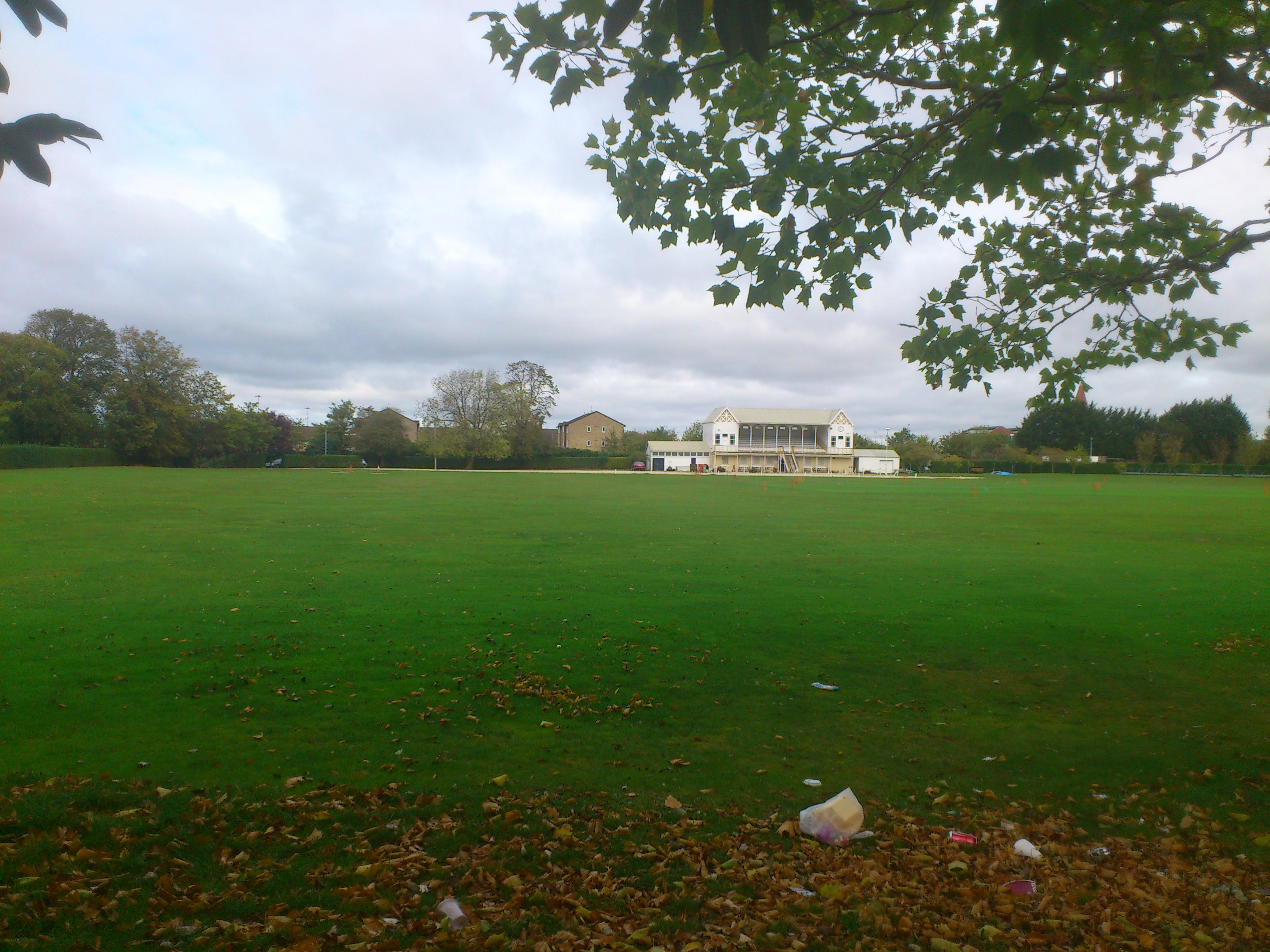 The pitch and the clubhouse of Swindon Cricket Club